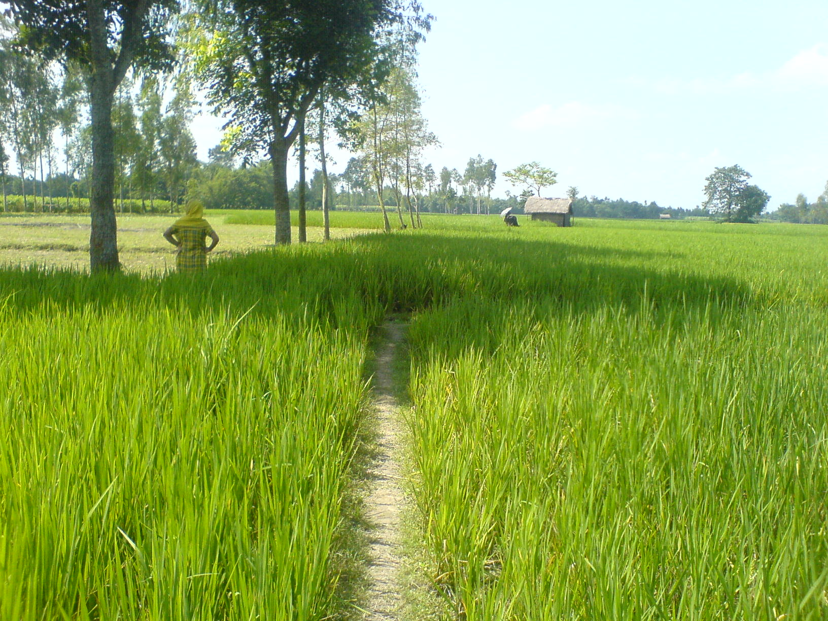 Green field in Ranpur, Bangladesh.